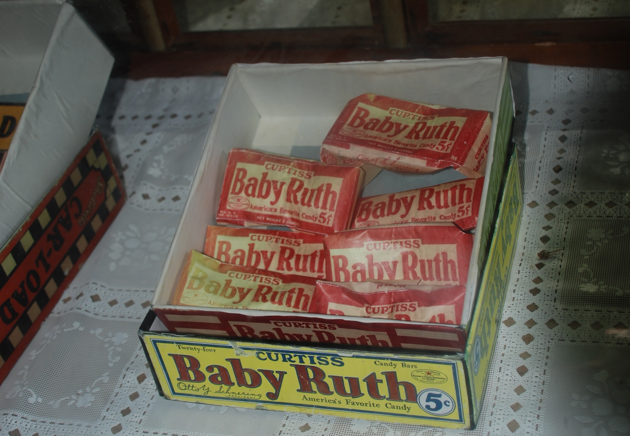 Portsmouth, North Carolina an abandoned village on North Core Banks: Post Office and General Store merchandize: Curtiss' Baby Ruth candy bar